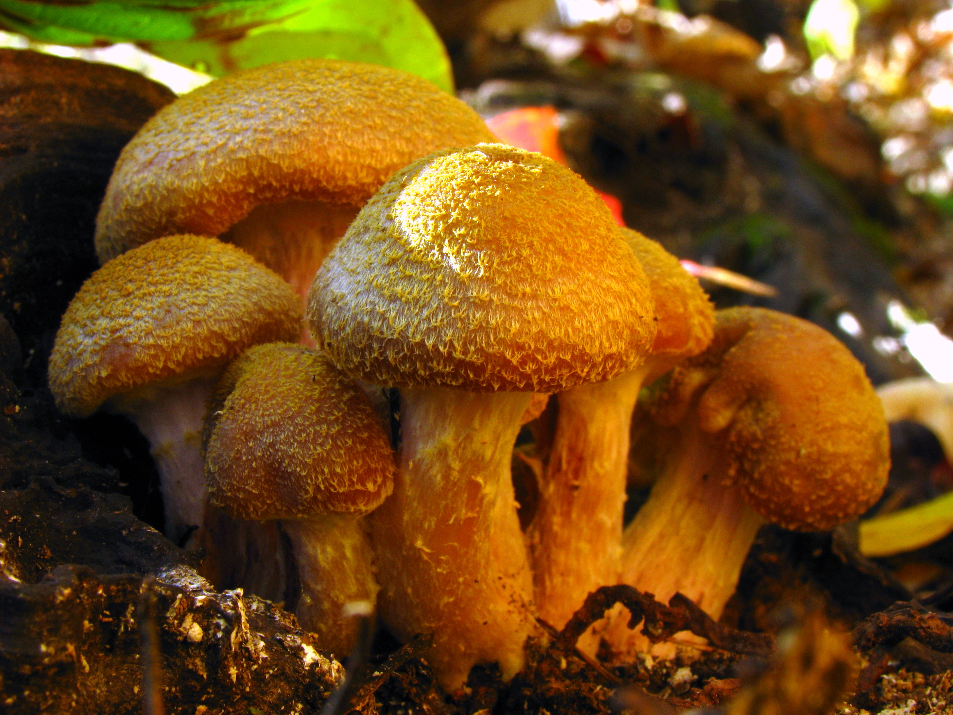 The mushroom Armillaria gallica Marxm. & Romagn. Specimen photographed in Wayne National Forest, Athens Co., Ohio, USA.